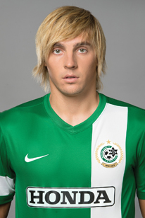 Andriy Pylyavskyi אנדריי פיליאבסקי